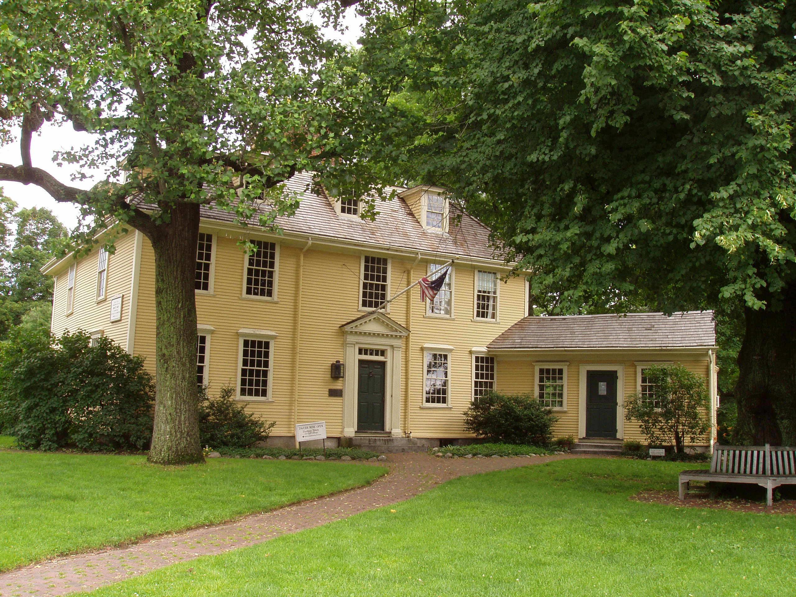 Buckman Tavern, Revolutionary War site in Lexington, Massachusetts. Photograph taken by me, July 2005.